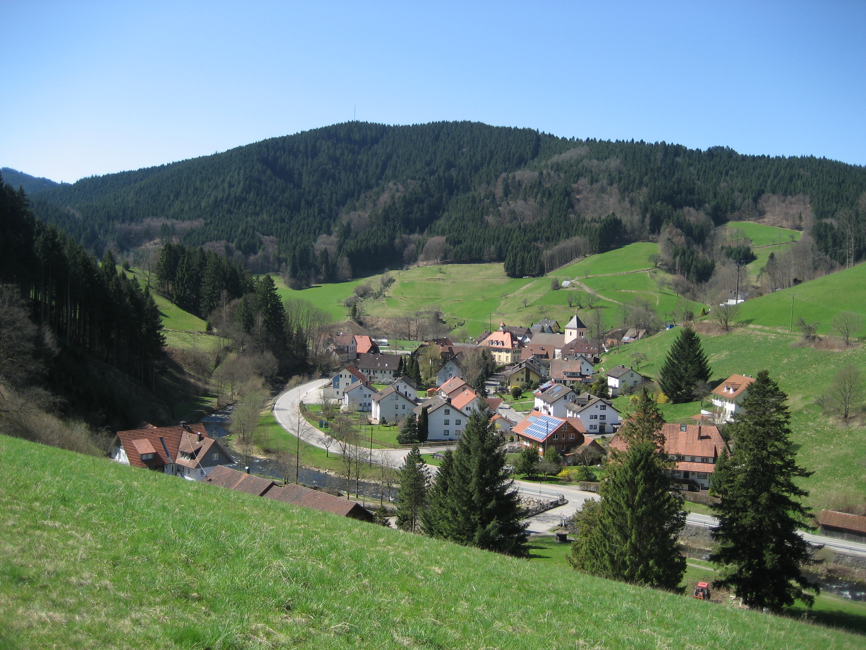 Oberwolfach, "Walke" district. Oberwolfach, Schwarzwald region, Germany, Europe